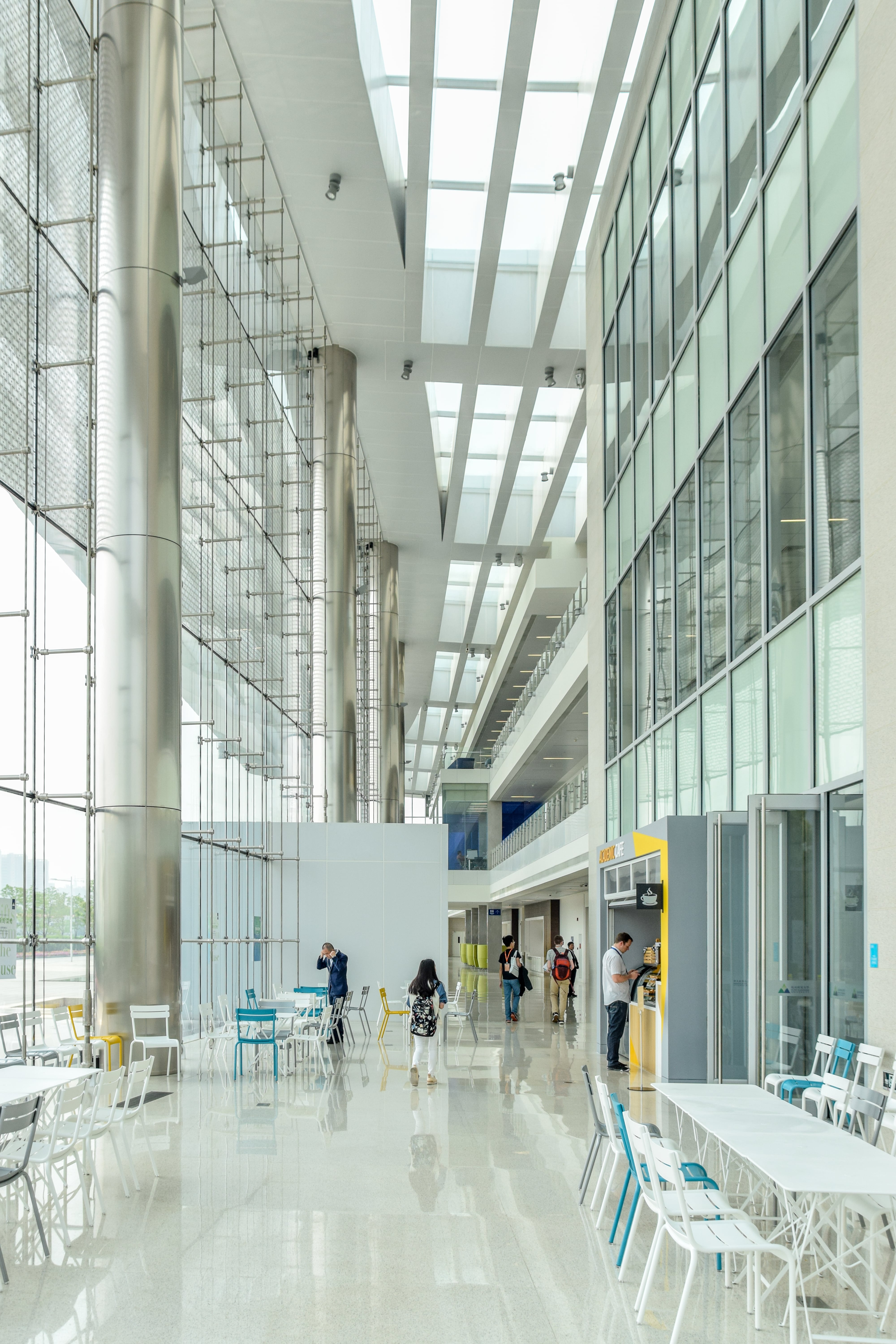 Interior of the Gensler-designed Academic Building on the Duke Kunshan University Campus